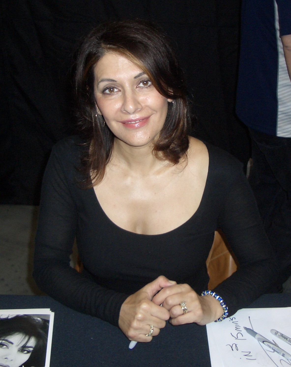 Star Trek Actress Marina Sirtis signing at London Expo 2004, The Excel Centre, East London.